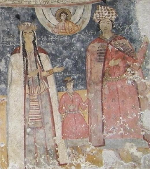 The Georgian nobleman Giorgi Lipartiani with his wife Sevdia as depicted in the 17th-century fresco from Martvili.